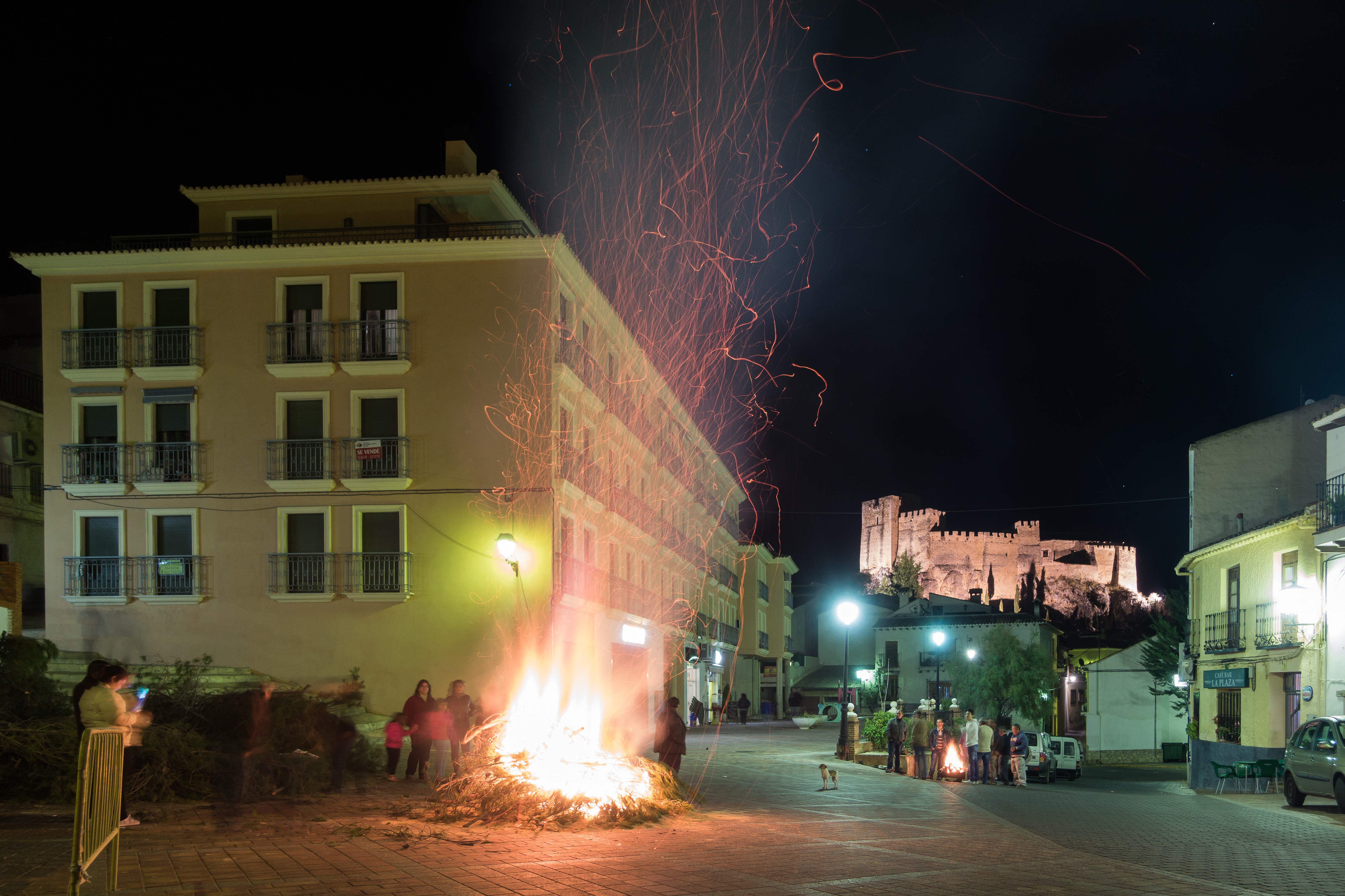 Celebration of the festivity of Santa Lucia in the village of Yeste in Albacete, Spain.